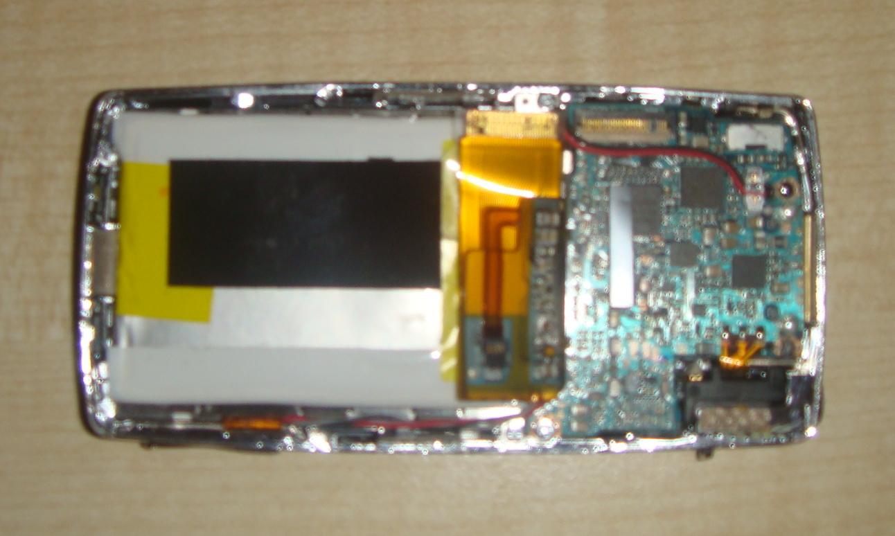 Opened Sony MP3 player NW-A805